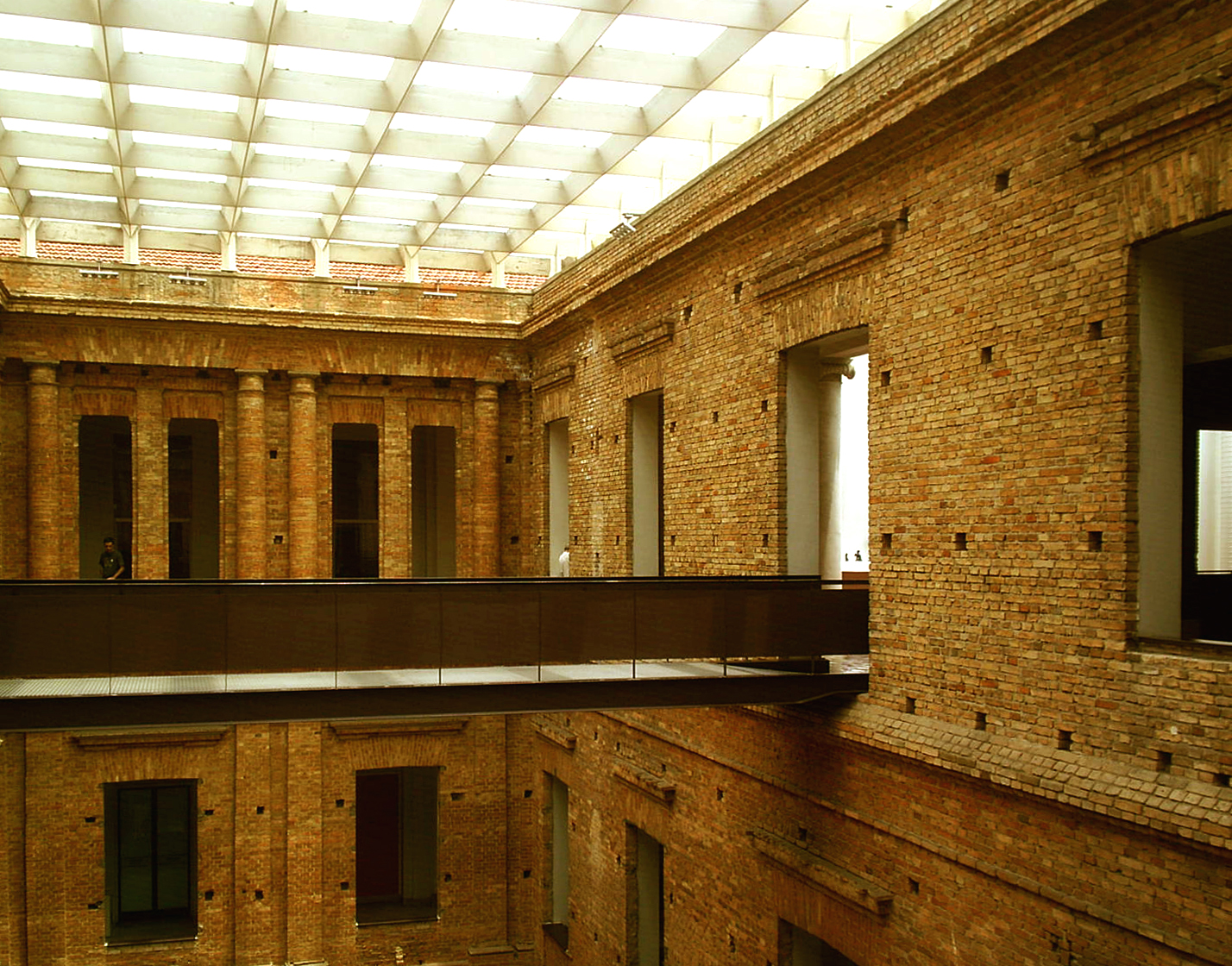 The picture depicts one of the atria in Pinacoteca do Estado de São Paulo. The building was designed by brazilian architect Ramos de Azevedo in 1900 and was recently subject to a restoration project by Pritzker-laureate Paulo Mendes da Rocha